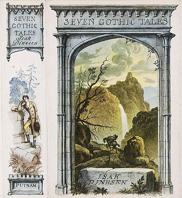 Dust-wrapper for Seven Gothic Tales by Isak Dinesen